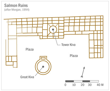 Map of the Salmon Ruins, after Morgan, 1994.